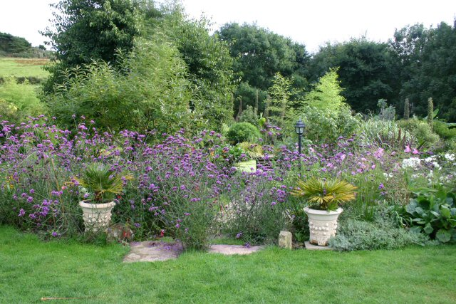 Pengersick farm - the gardens. The excellent gardens at Pengersick Farm - open for tea in the conservatory. Also offer B&B. A visit is very recommended.